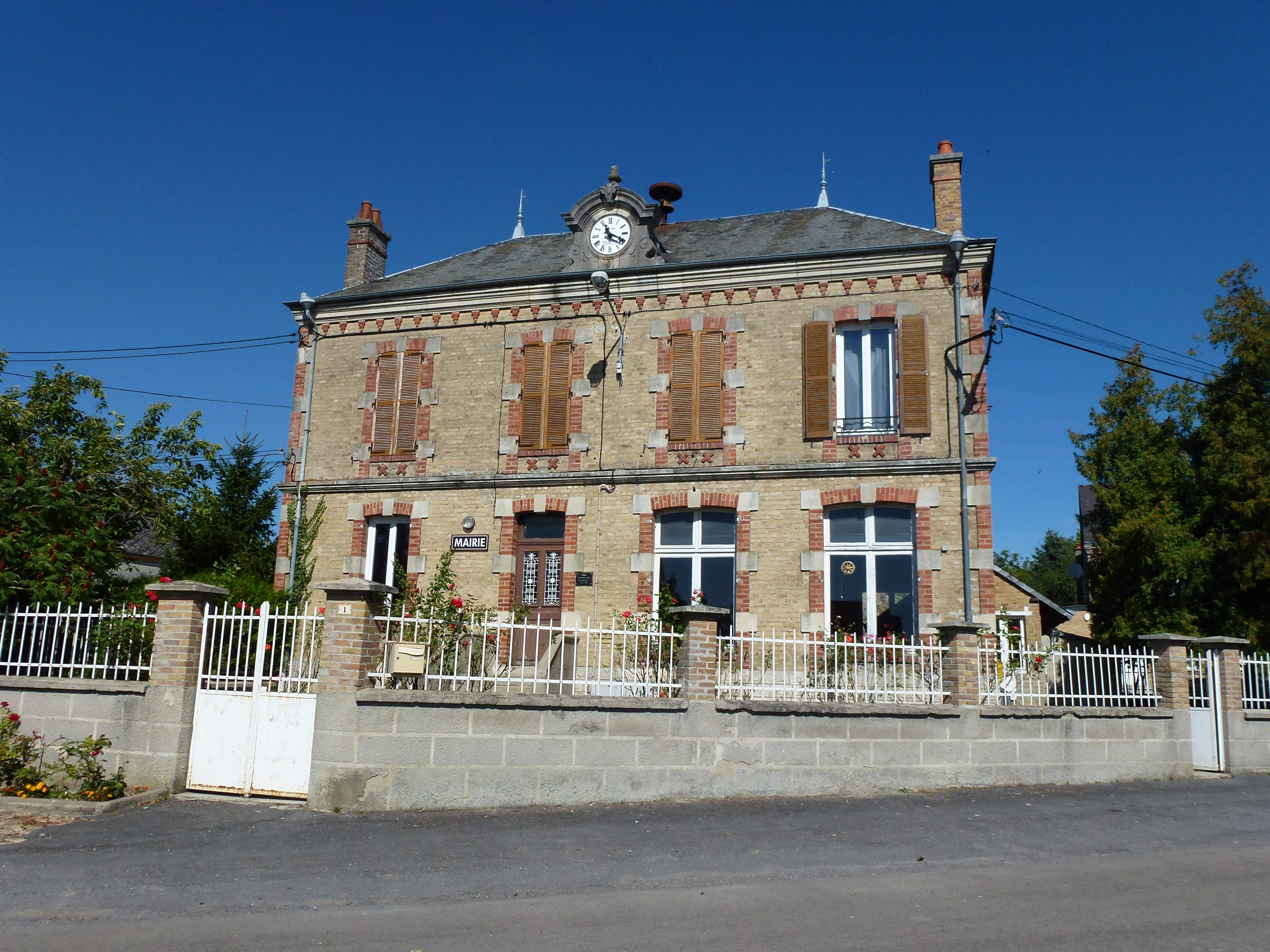 Corny-Machéroménil (Ardennes) mairie à Corny